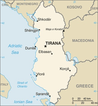 Albania map from CIA World Factbook